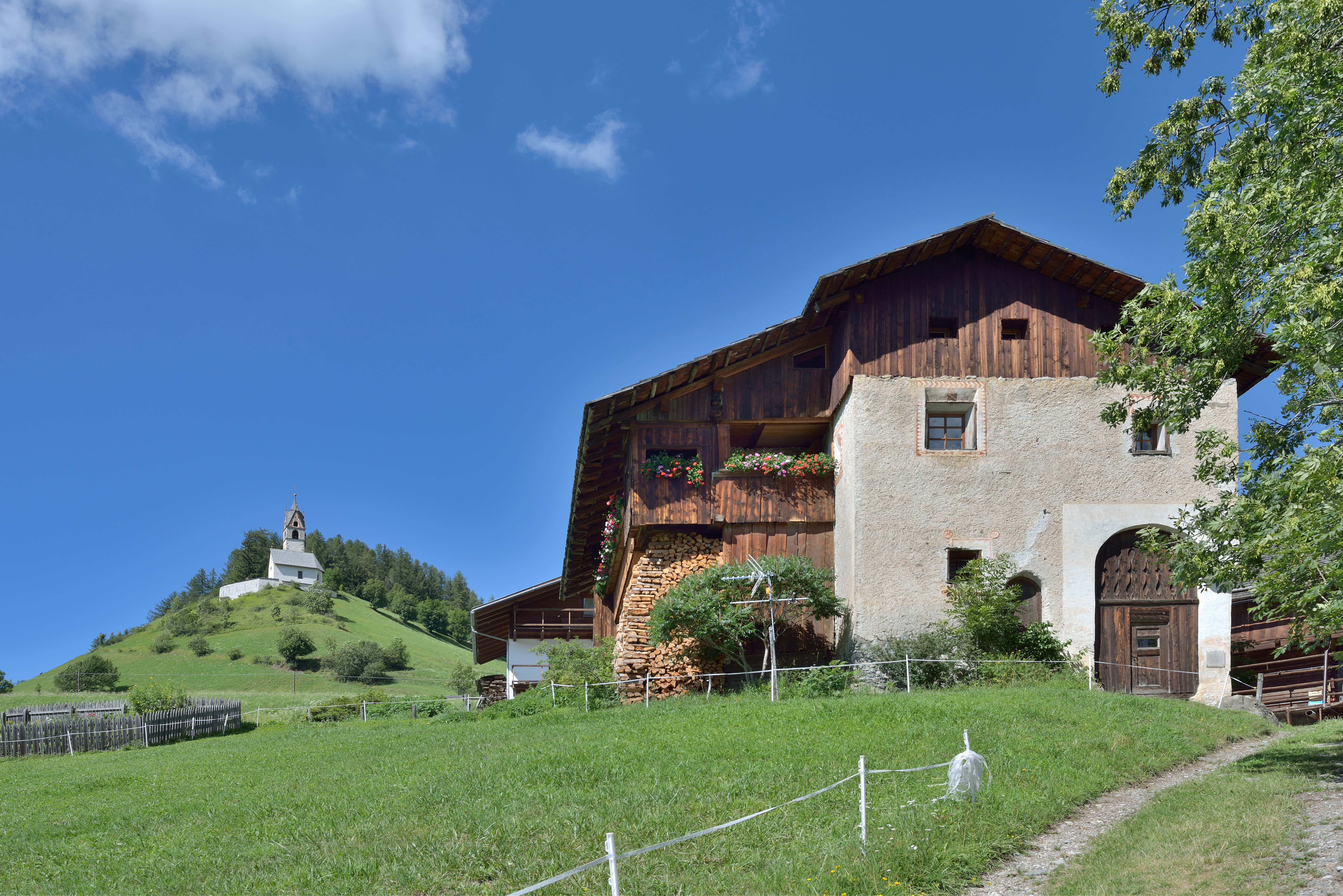 Manor house "Rü" in in La Val